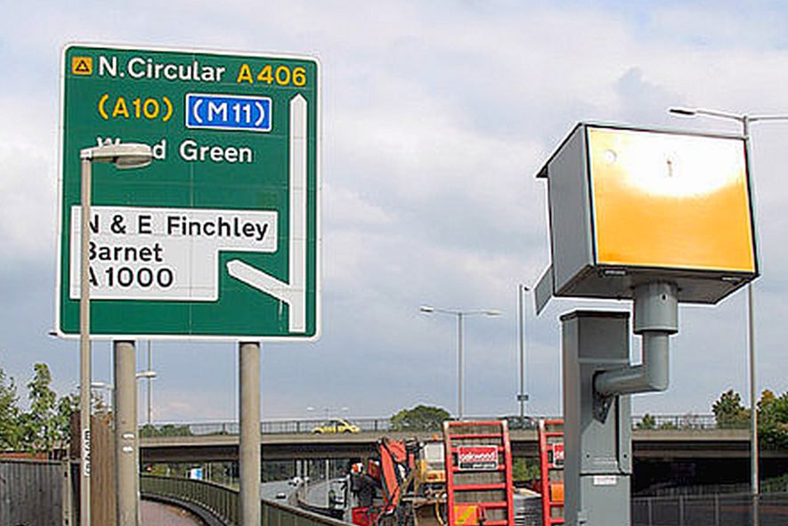 A406 North Circular Road Speed camera and route information at the junction with the A1000.